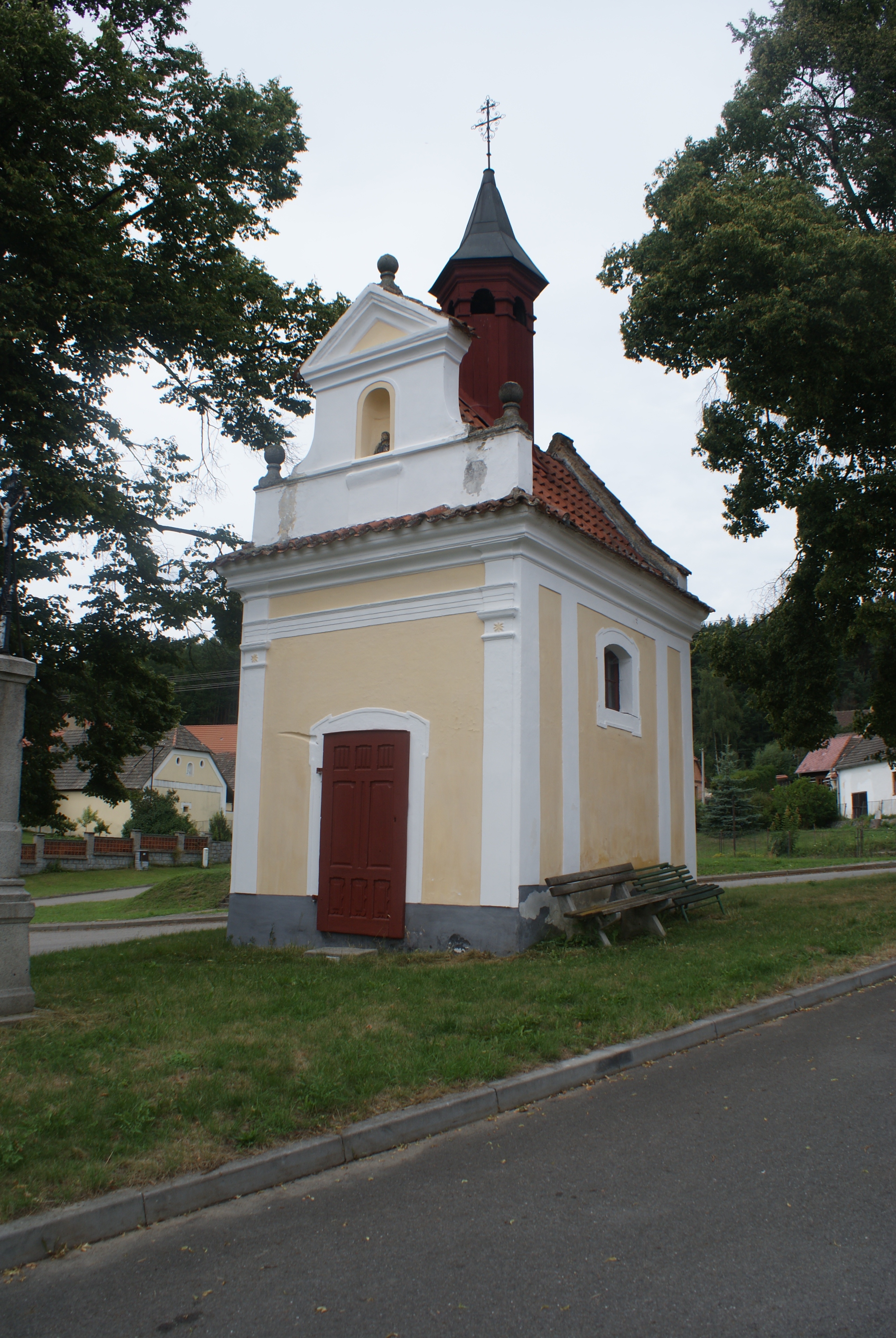 The chapel in Chlum, Strakonice District